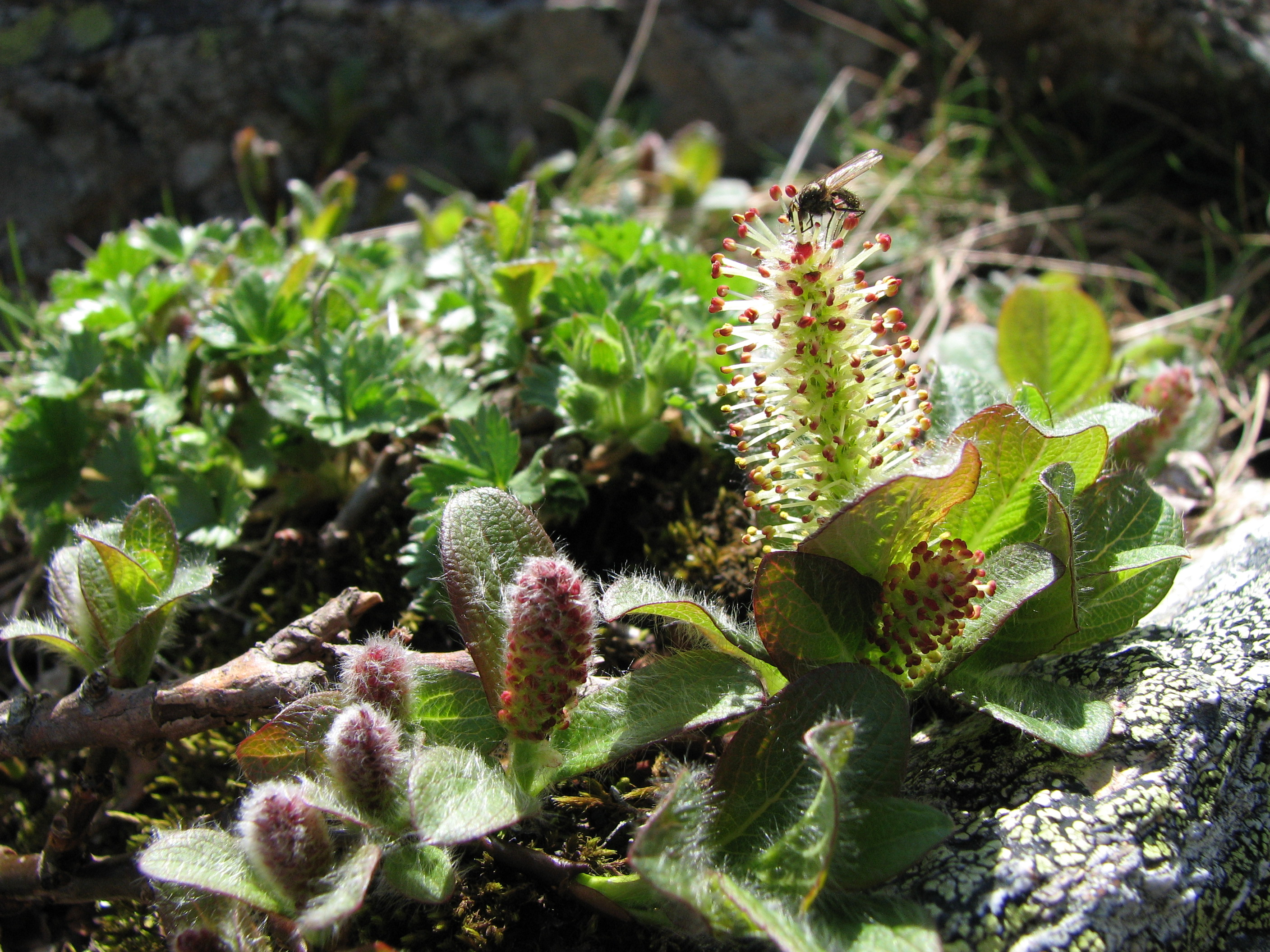 Salix nakamurana at Mt. Kitadake, Yamanashi pref., Japan.